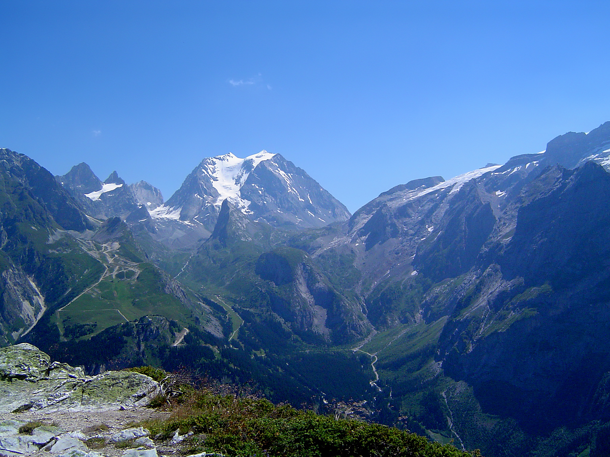 View over the Grande Casse (3855 m), highest point of the Vanoise massif (in the French Alps). On the right, the Vanoise Pass. Just before the Grande Casse, the Vanoise Peak, over the Glière river valley, and then Les Fontanettes, a village part of the Pralognan-la-Vanoise municipality. On the right, the Vanoise Glaciers. Picture taken from the Mont Bochor, 2005